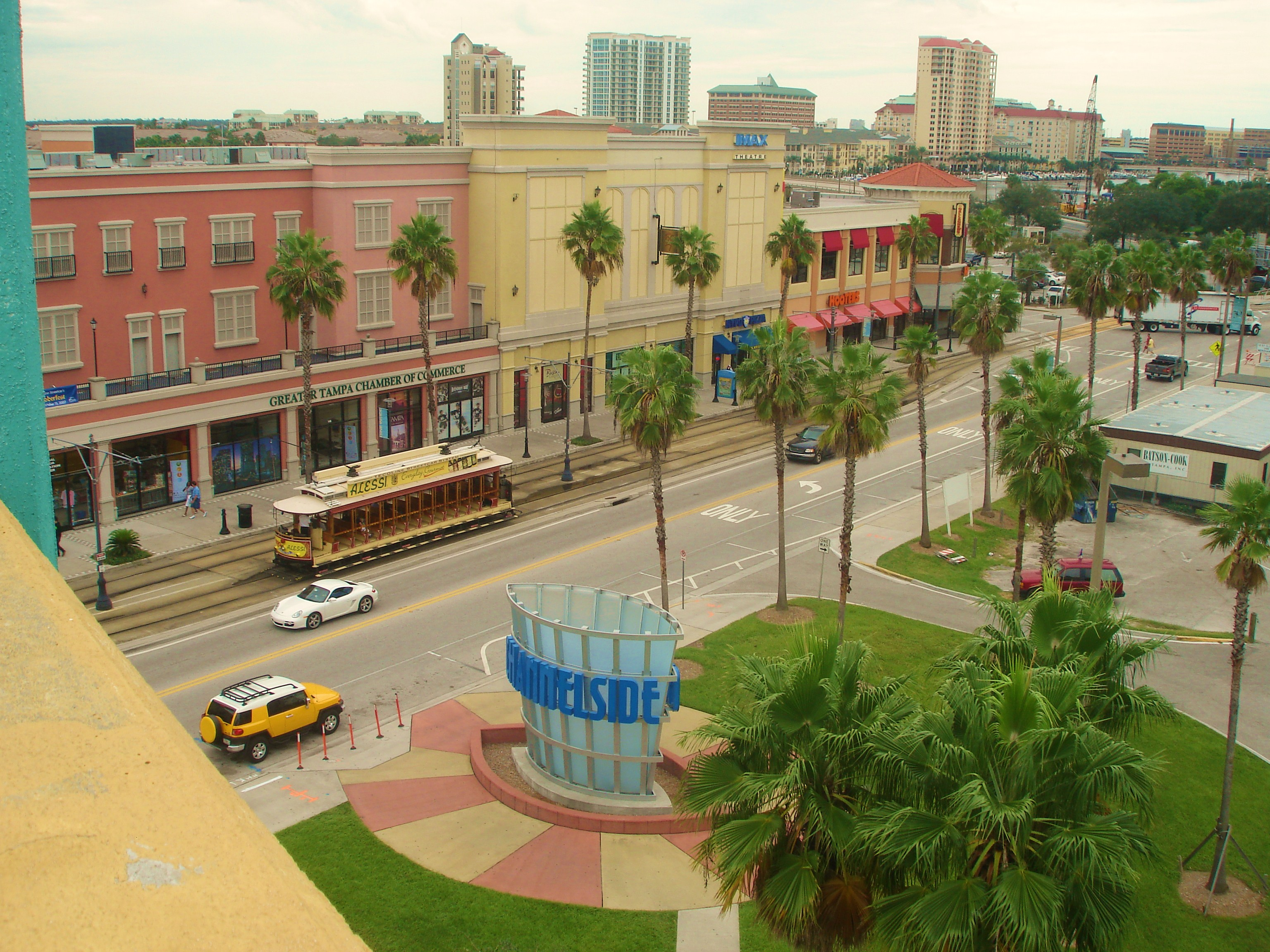 View of Channelside Drive from the parking garage.